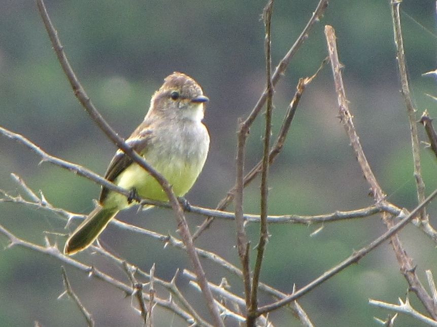 Northern Scrub Flycatcher (Sublegatus arenarum), Maya, west of Ocumare de la Costa, Estado Aragua, Venezuela.